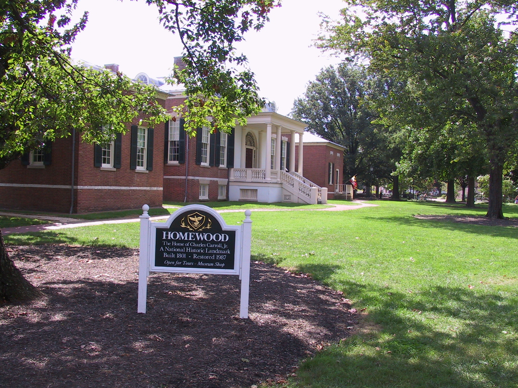 Homewood House at Johns Hopkins University